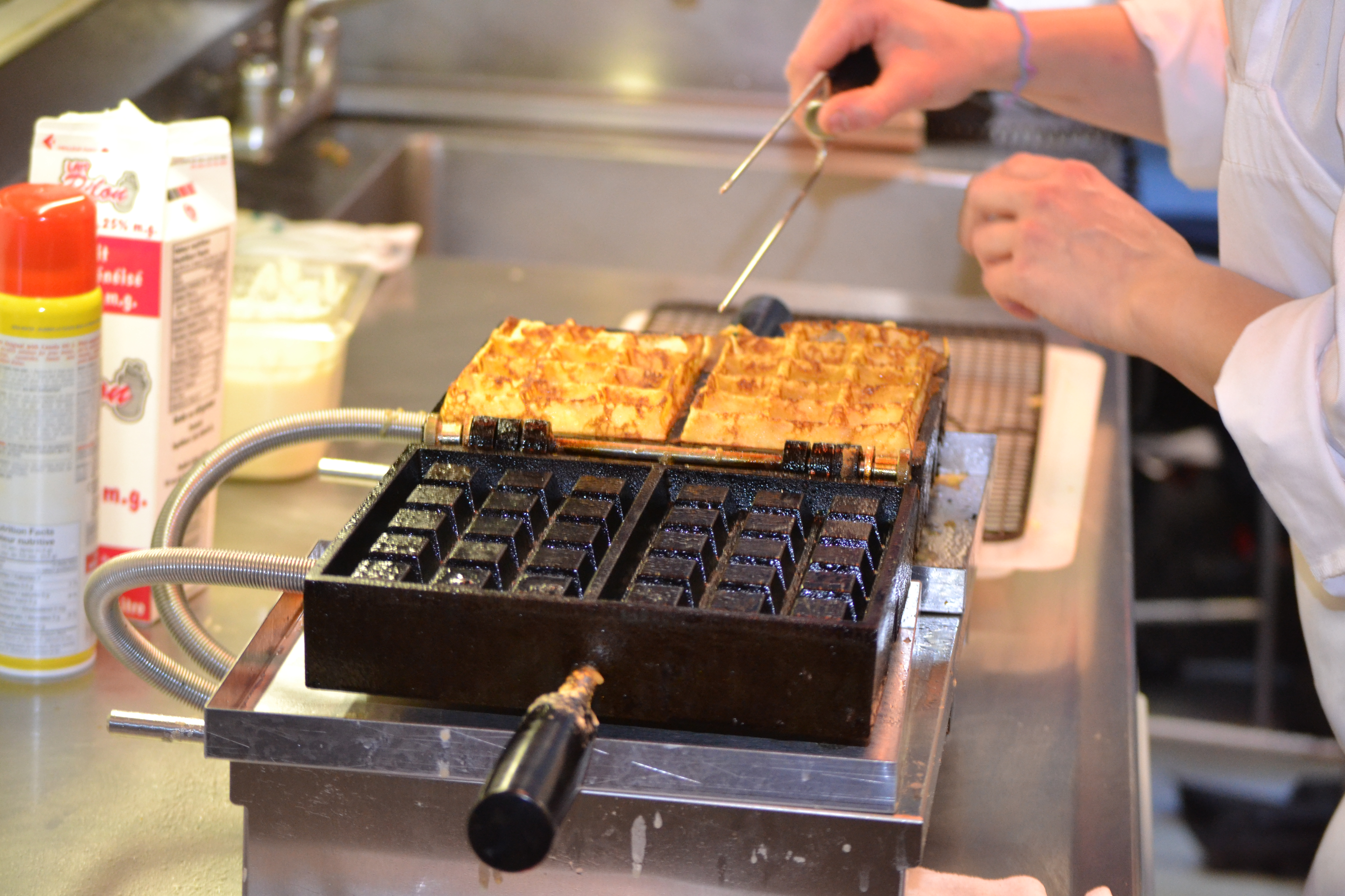 Belgian waffles cooked in a Krampouz cast-iron waffle iron, in a Montreal restaurant during the gastronomy competition of the Montreal Highlights Festival.